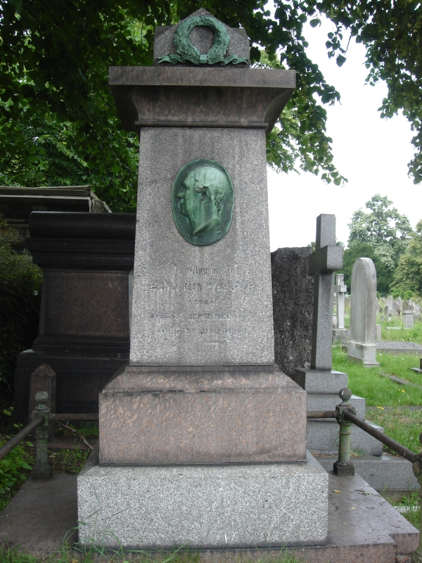 Gravestone of Benjamin Webster at Brompton Cemetery, London